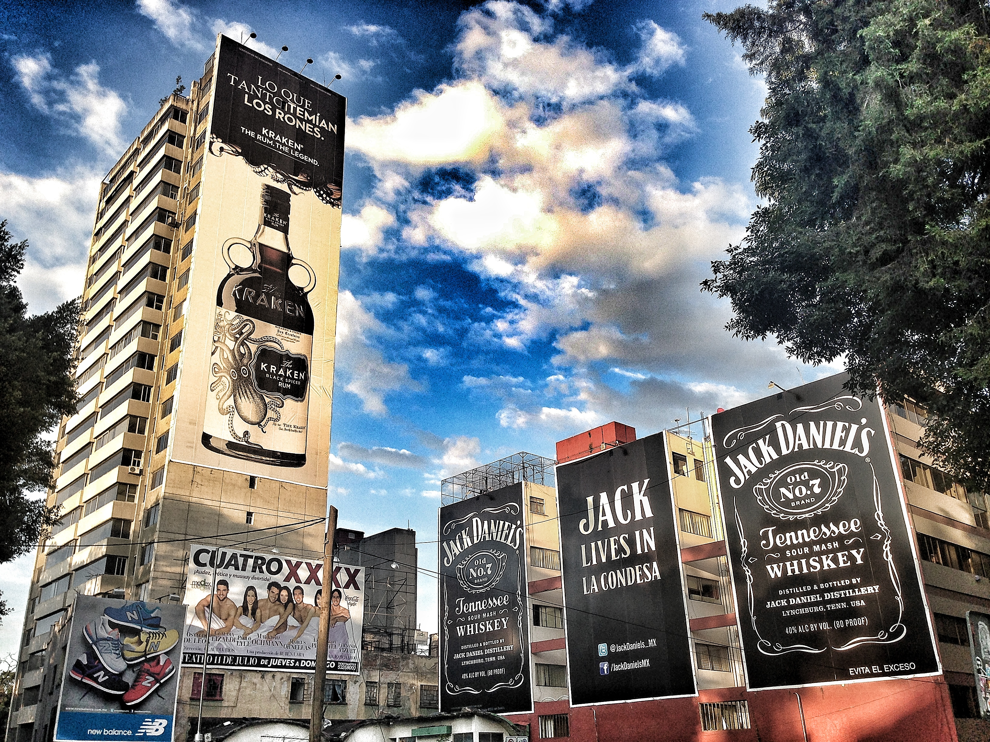 Advertising on the side of buildings, col. Condesa Hipódromo, Condesa, Mexico City